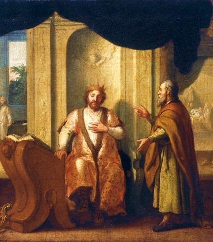 Nathan advises King David